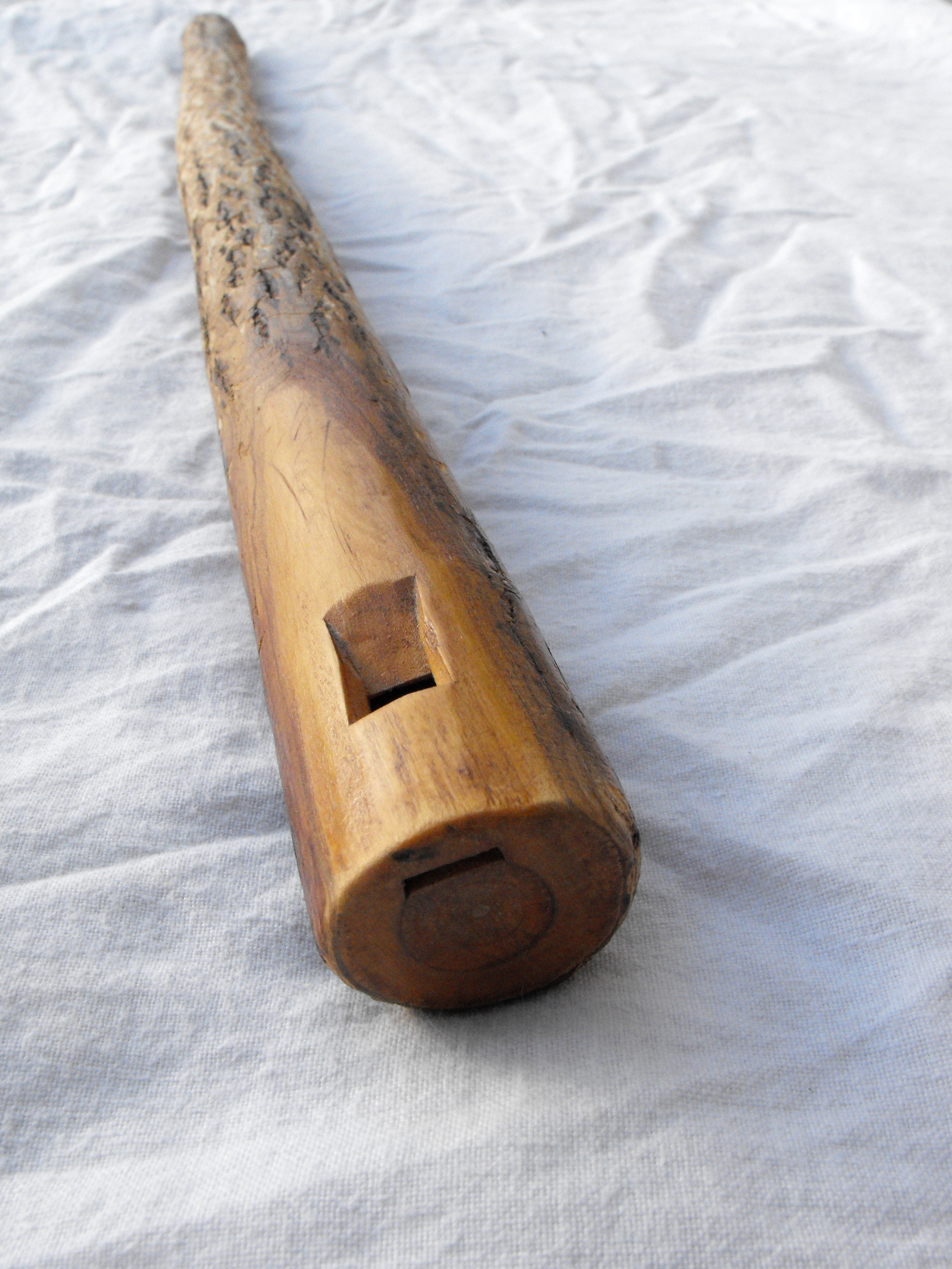 Koncovka, detail view.